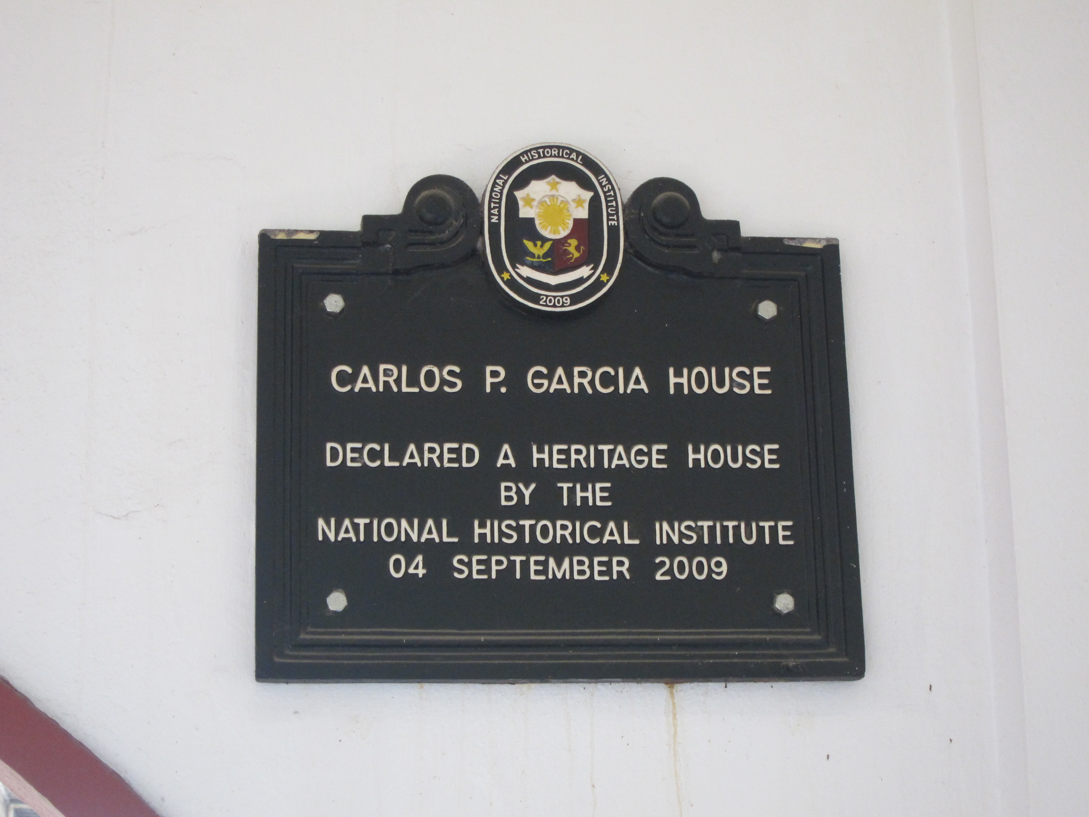 Historical marker of the Carlos P. Garcia House in Bohol.